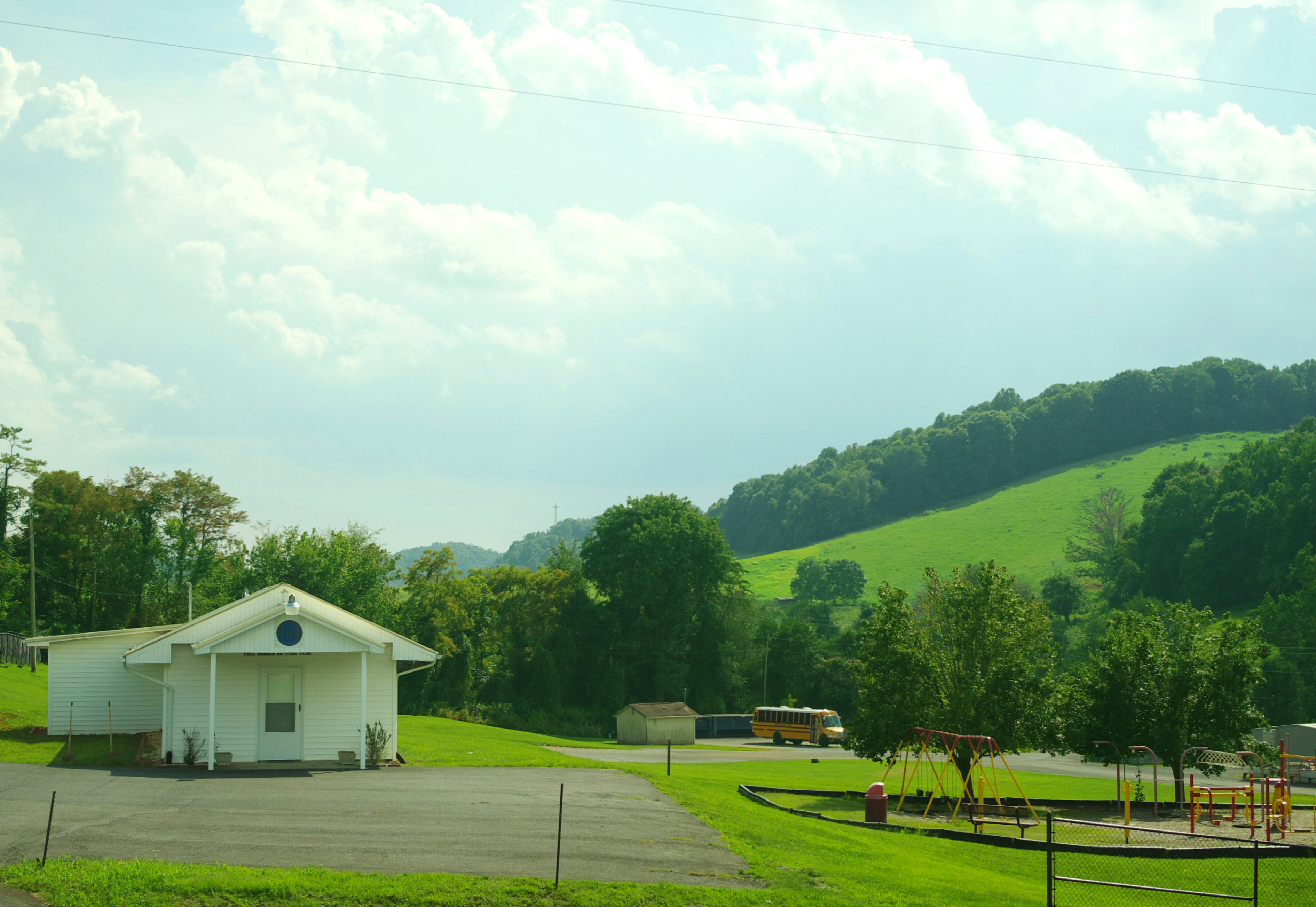 Ruritan Club and hills in the Fall Branch community of Washington County, Tennessee, United States.